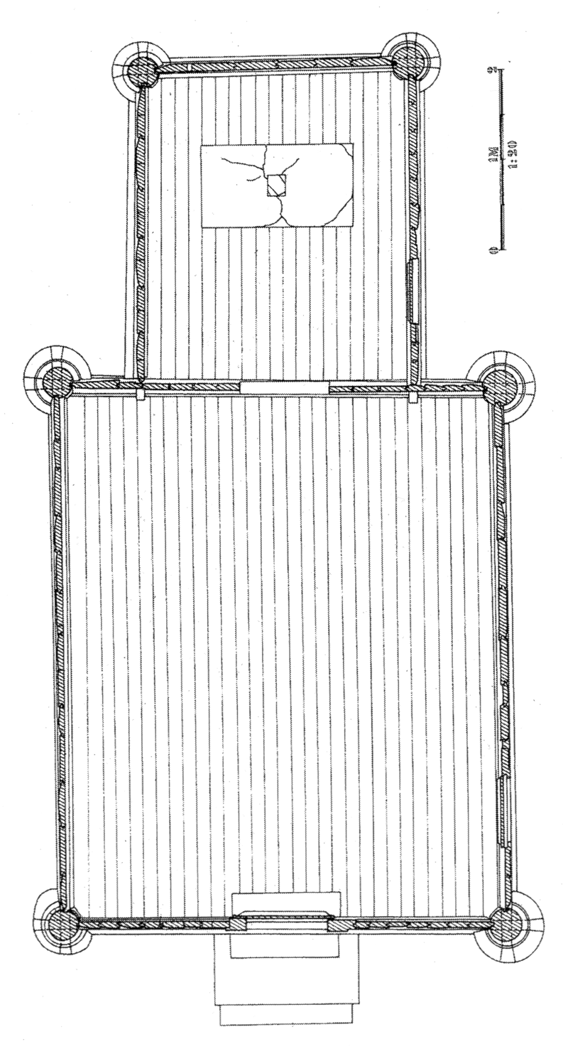 Footprint of stave church Haltdalen